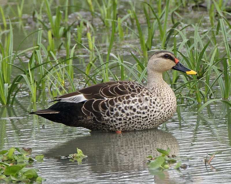 Spot-billed Duck (Anas poecilorhyncha). A male in Kazaringa, Assam, India on 15 April 2008.